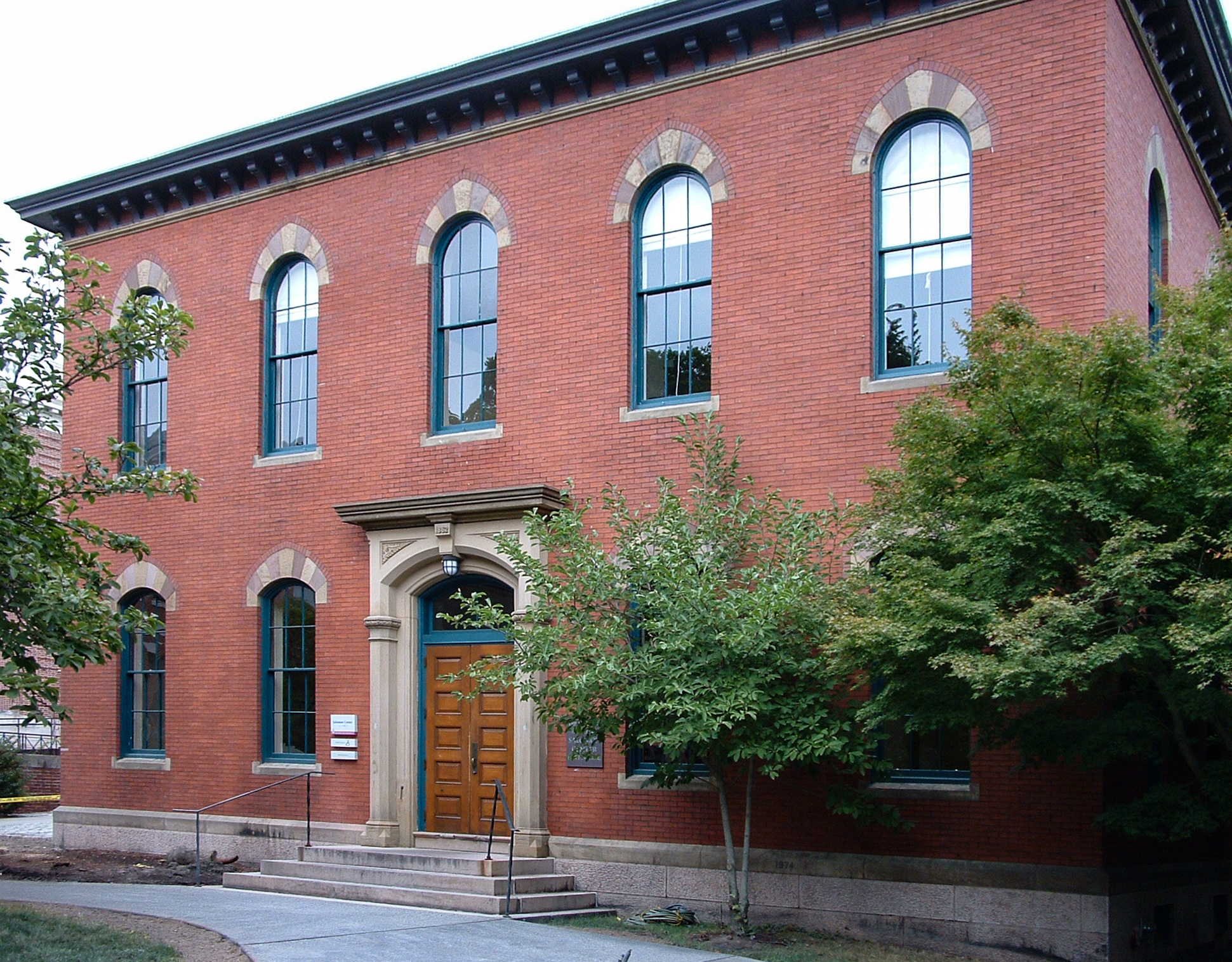 Brown University - Salomon Center